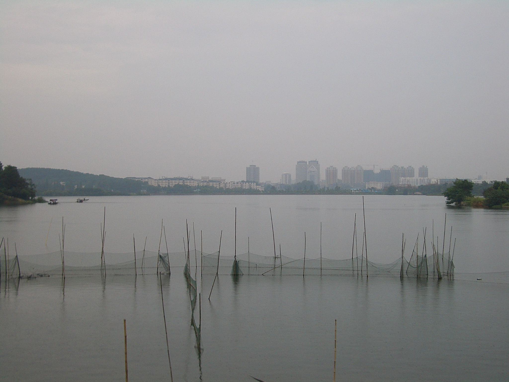 The Yujia Lake (a SE bay of Wuhan's East Lake)